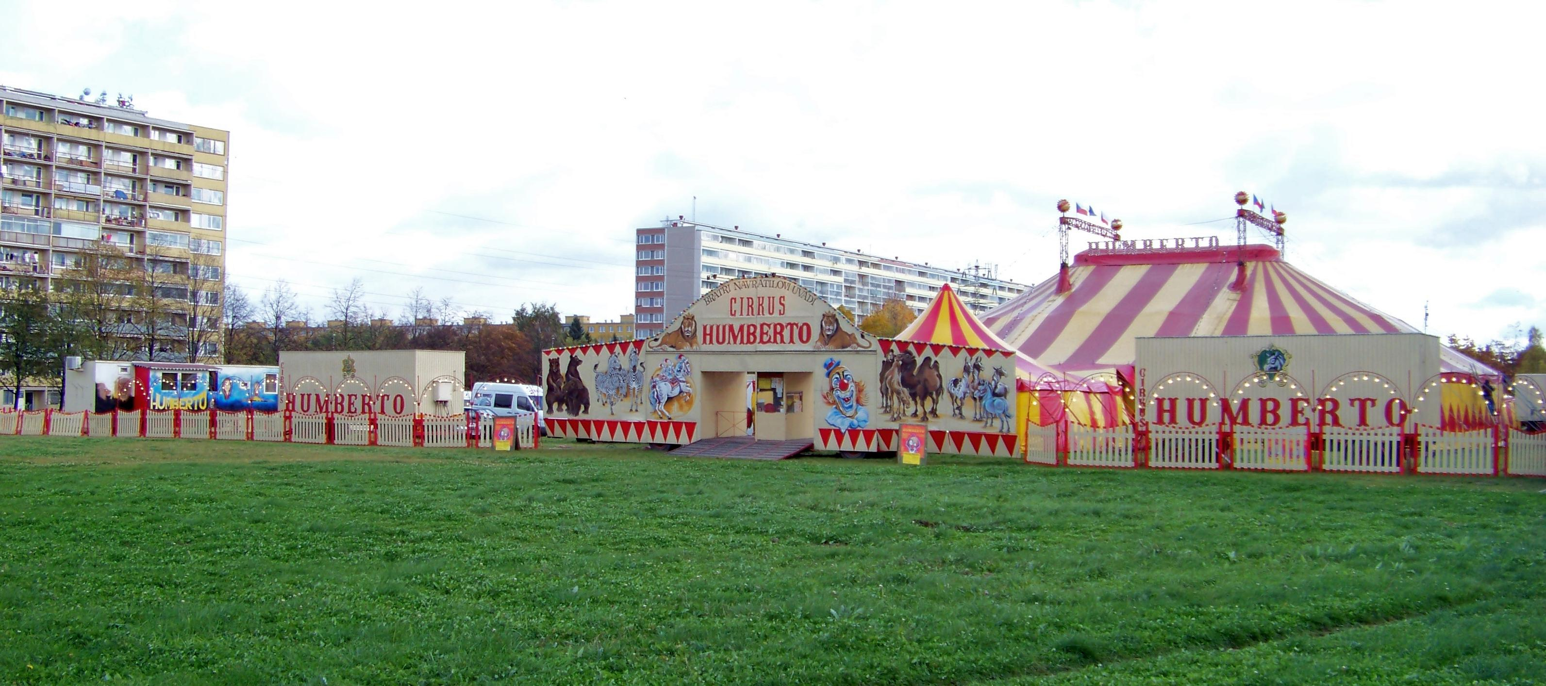 Prague-Střížkov-Prosek Housing Estate, the Czech Republic. Humberto Circus.